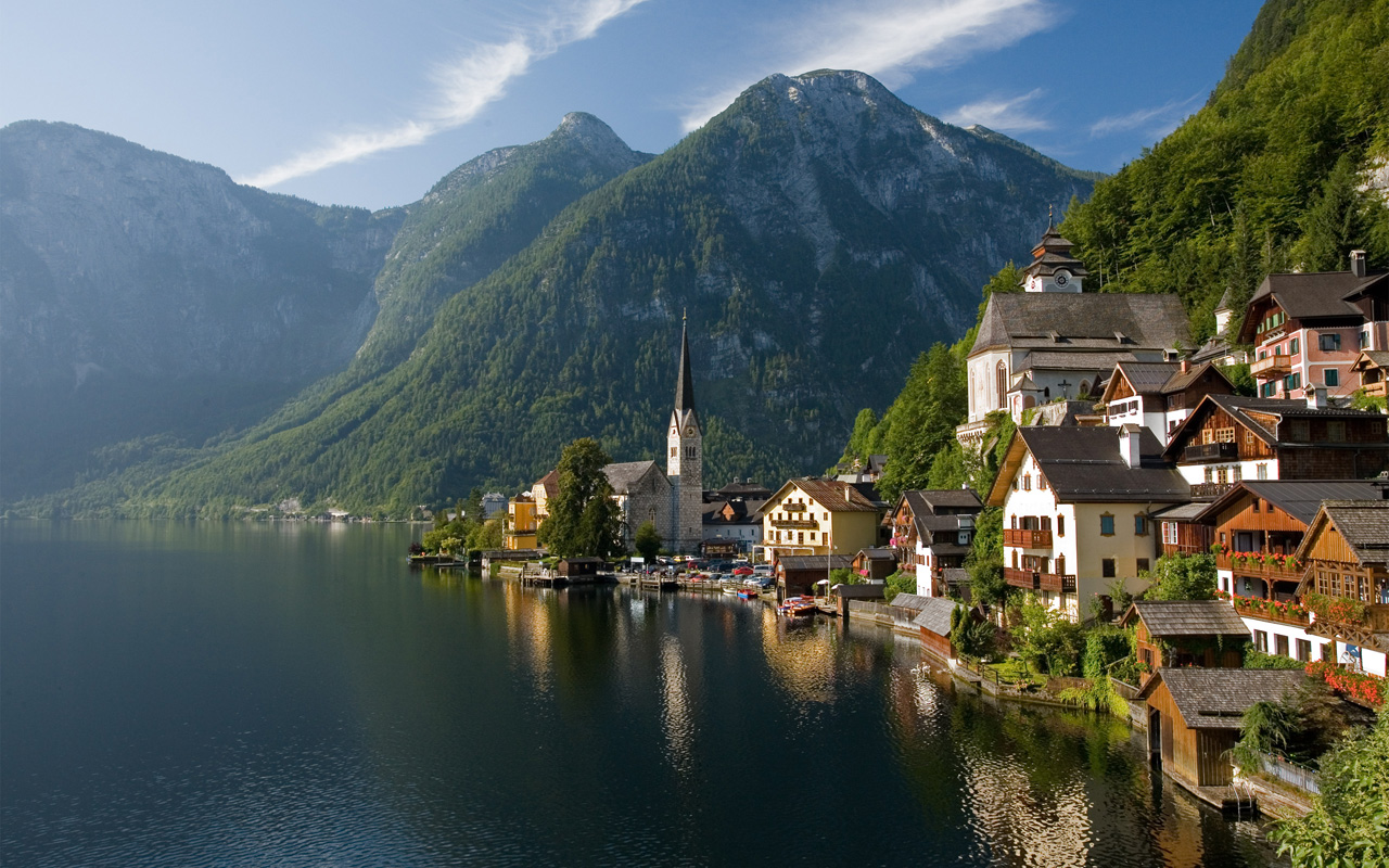 Author: Nick Csakany URL